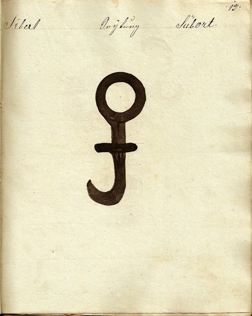 Cattle brand of Seiburg/JibertZsiberk in Transylvania